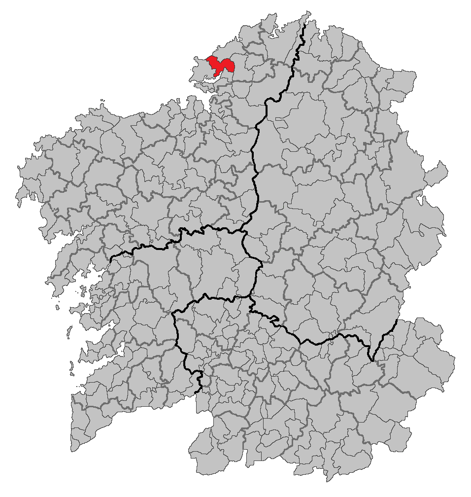 Location map of Narón, A Coruña, Galicia